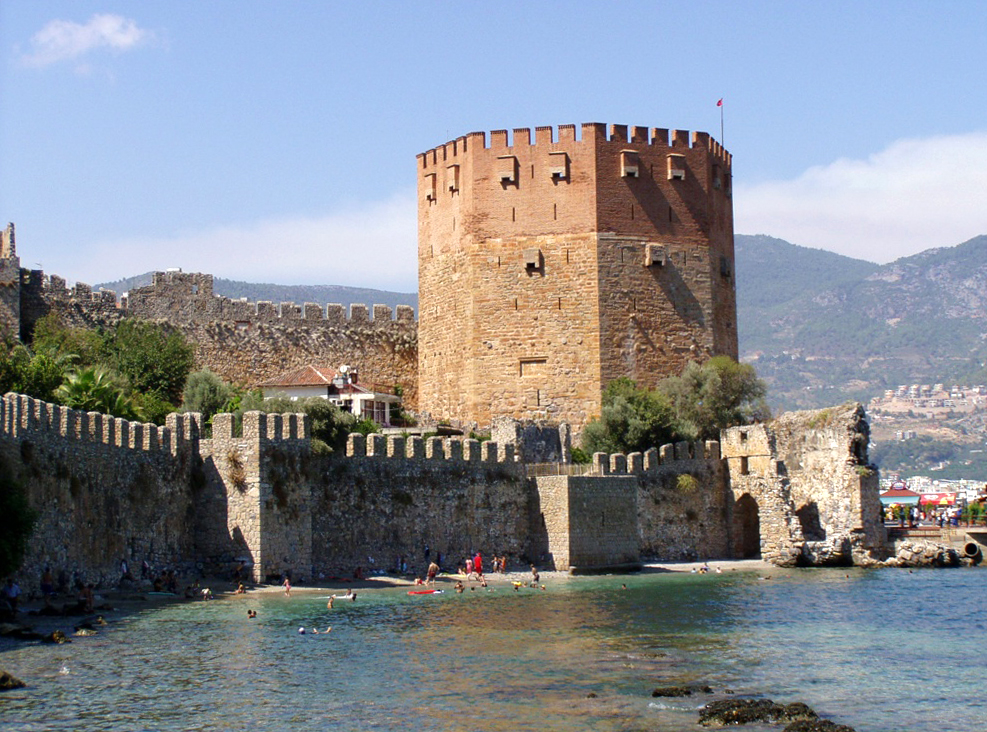 The Kizil Kule (Red Tower) The octagonal shaped building that's the symbol of the city is a work by Selcuks of the 13th century. It was built in 1226 by Ebu Ali Reh el Kettani, a master builder from Aleppo and had built the citadel of Sinop before on the demand of Alaaddin Keykubat, the Sultan of Selcuks. It was made of red bricks, the upper parts of which had been fired, since stone blocks were difficult to lift at a certain height, thus it was given the name of Kizilkule (Red Tower). Marble blocks of the antiquity are seen in the walls of the citadel. The height of the tower that is octagonal in shape is 33 meters and it is 29 meters in diameter, its each wall is 12.5 metres long. There are five floors, including the ground floor. You can go to the top of the tower with the help of stone stairs that are high-spaced and have 85 steps. Sunlight coming from the top of the tower even reaches the first floor. There is a cistern in the middle of the tower. The tower was built in order to protect the harbour and the dockyard from naval attacks and was used for military purposes for centuries. The Seljuk Empire used Alanya as a second capital city in addition to Konya and used the city as a winter residence and made improvements there. Mongol attacks in 1243 and the Invasion of Anatolia by Egyptian Memluks weakened the Seljuk Empire which was divided in 1300, and the region came under the reign of the Karamano?ullar? dynasty. In 1427 Alanya was sold to the Memluk Sultan for five thousand gold pieces, and then in 1471 the city was included within the borders of the Ottoman Empire by Mehmet II The Conqueror.